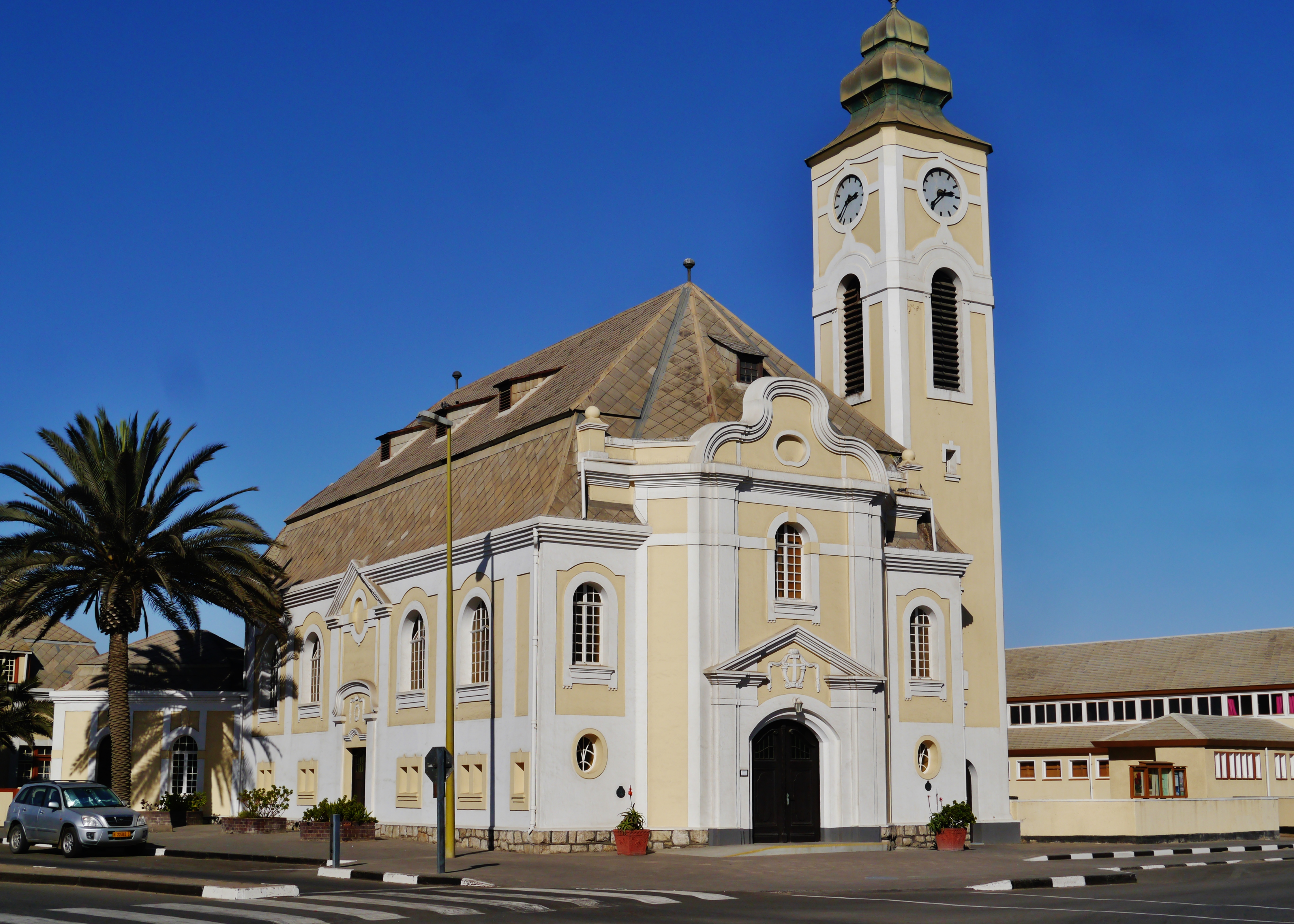 Evangelical Lutheran Church, Swakopmund, Region of Erongo, Namibia